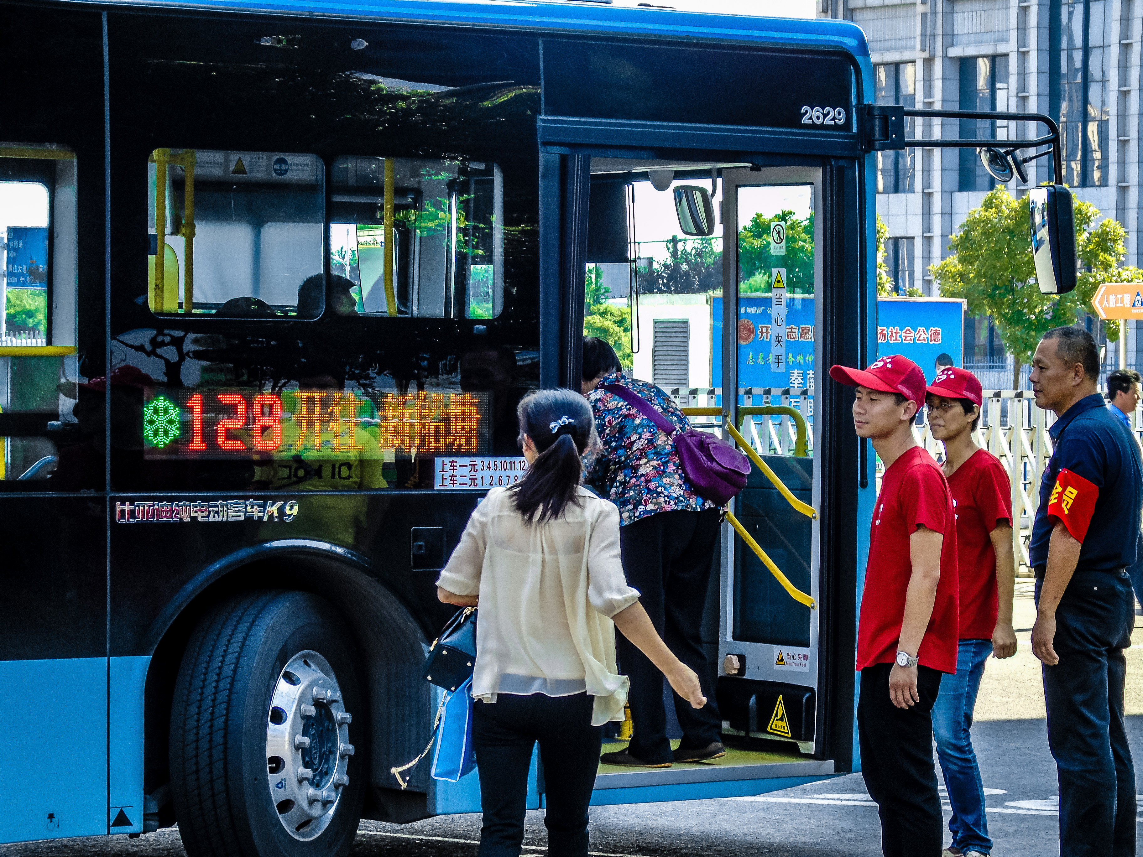 Bengbu Bus No.128 with Volunteers